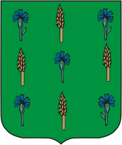 Novosil (Oryol oblast), coat of arms (1778)